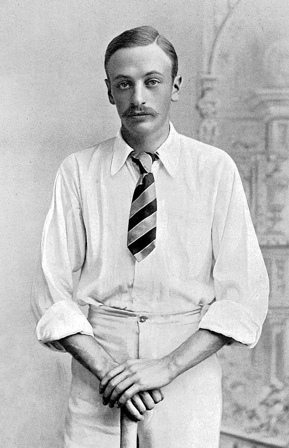 Sport, Cricket, Circa 1895, Rev, Clement Eustace Macro Wilson, Cambridge University,(1895-1898)